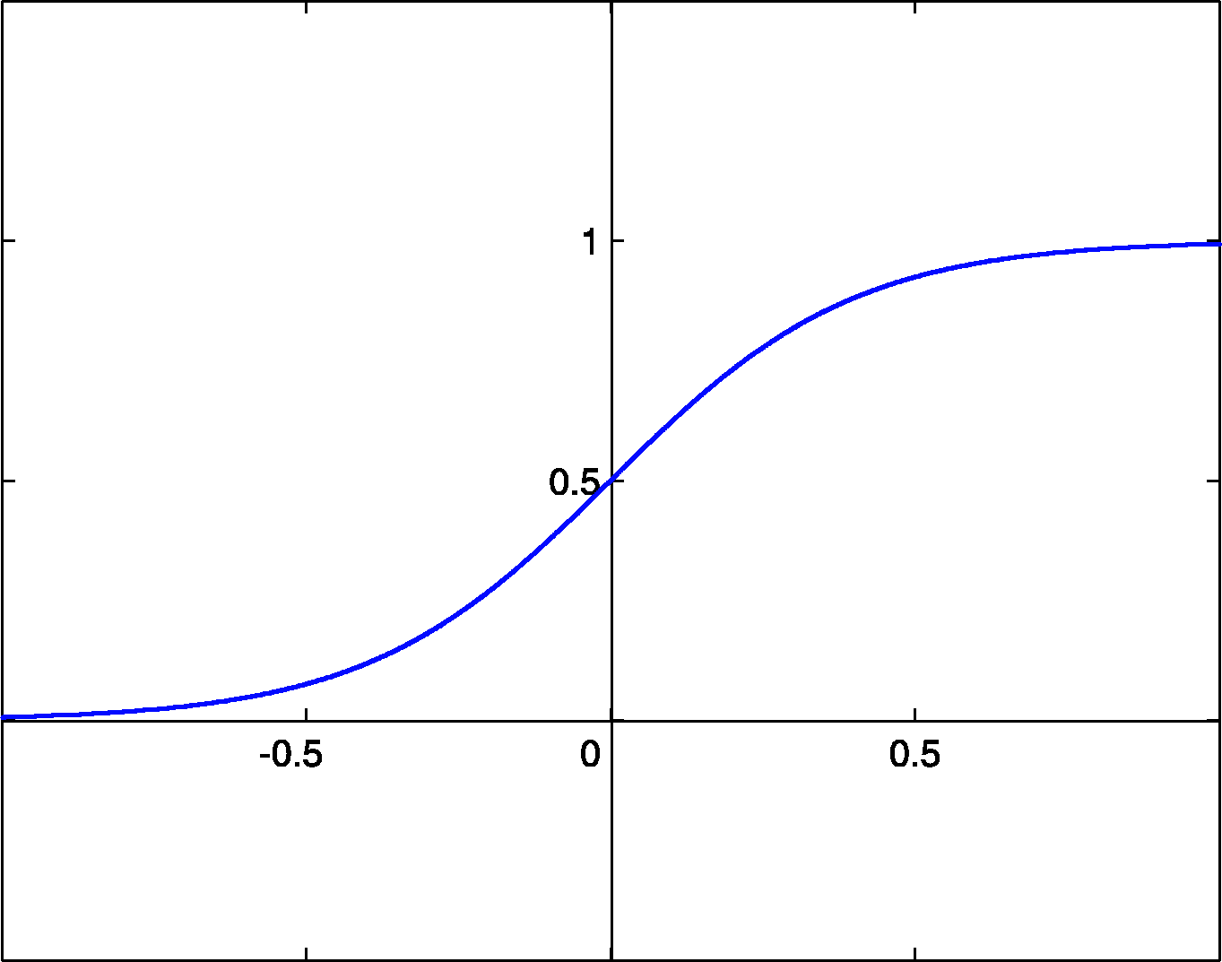 Sigmoid function used as neuron activation (f(v)=1/(1+exp(-a*v)) with a=5).